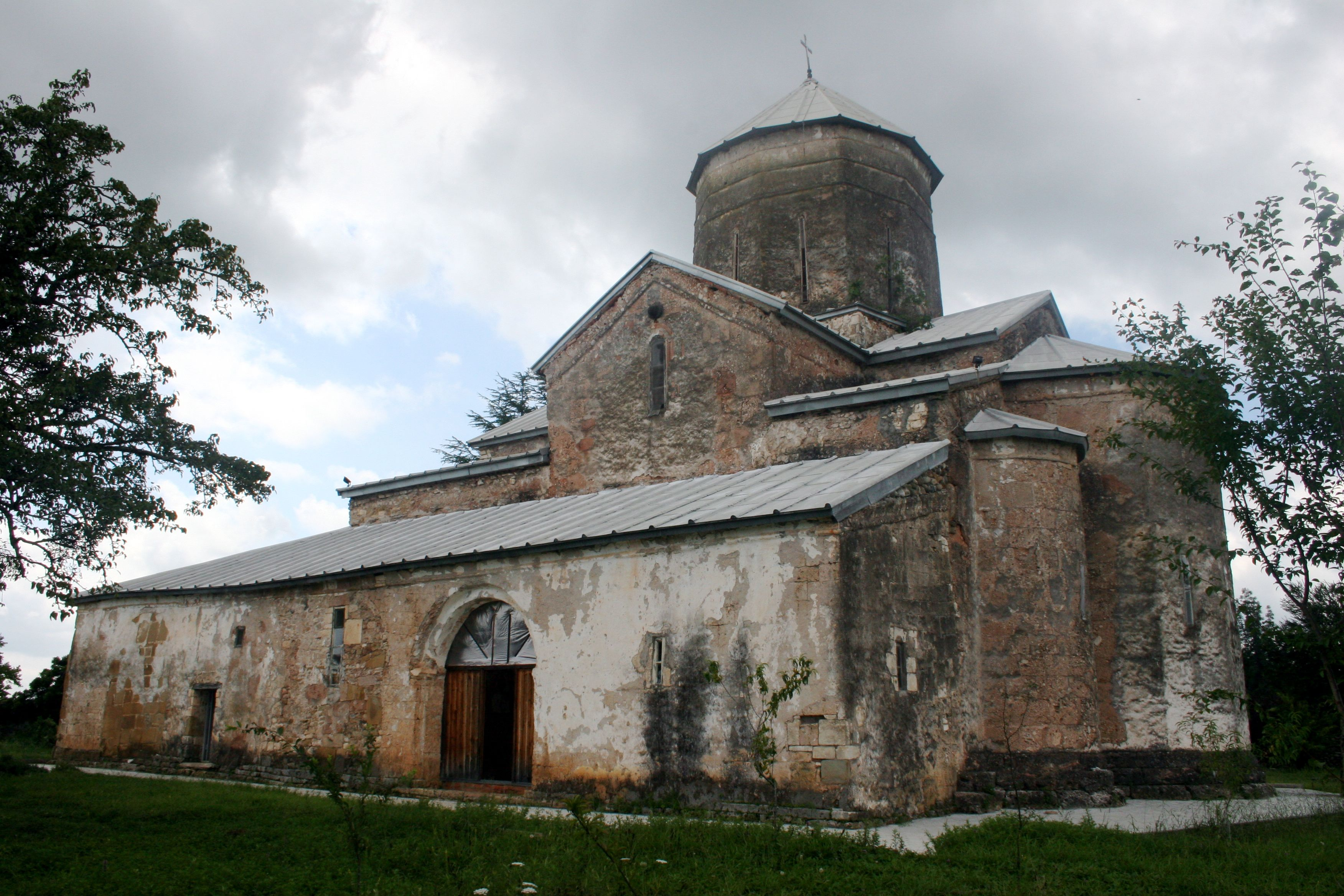 Tsalenjikha Cathedral (southwest facade), Georgia